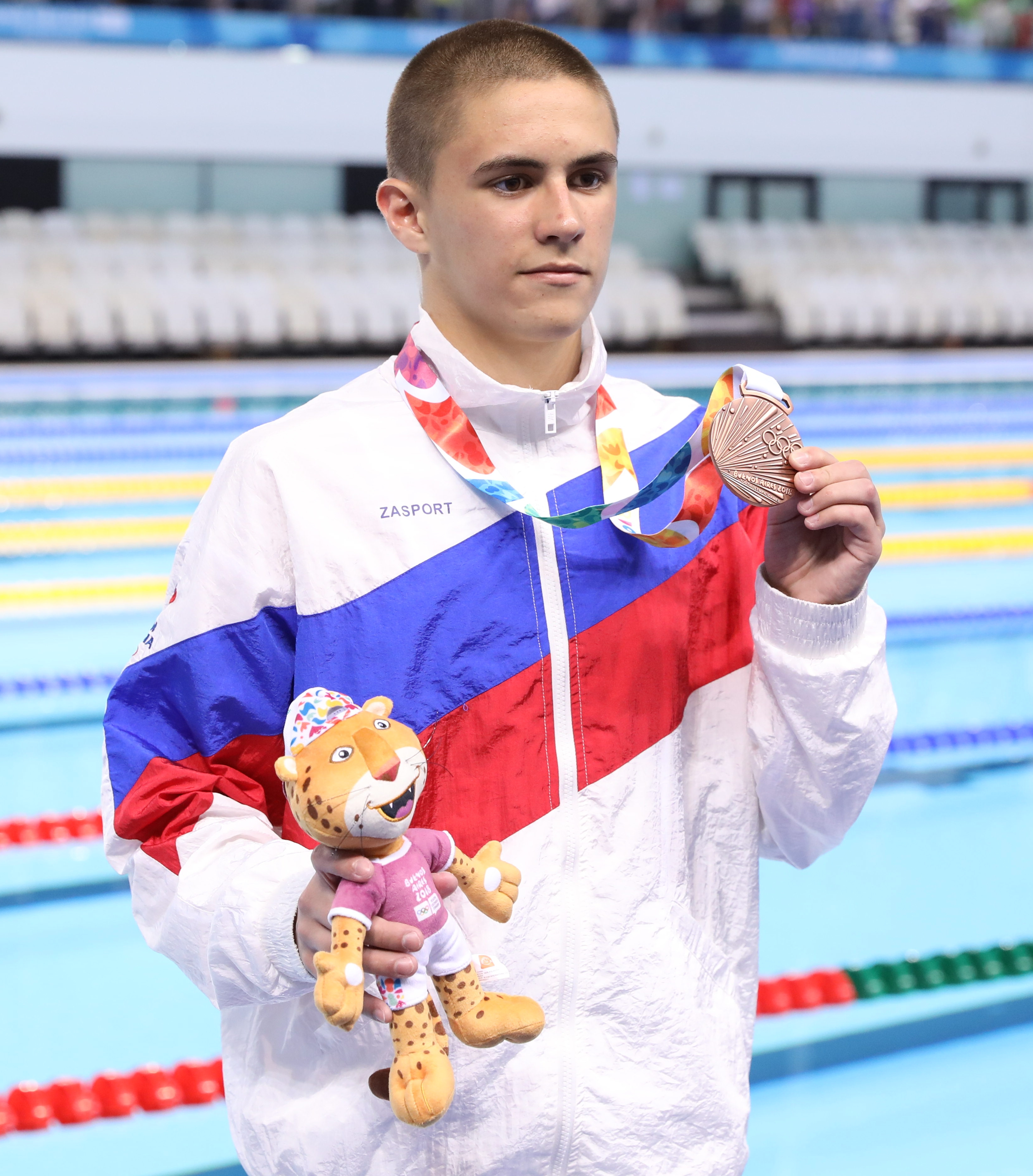 Boys' Diving, 10 m platform, Final: Victory ceremony